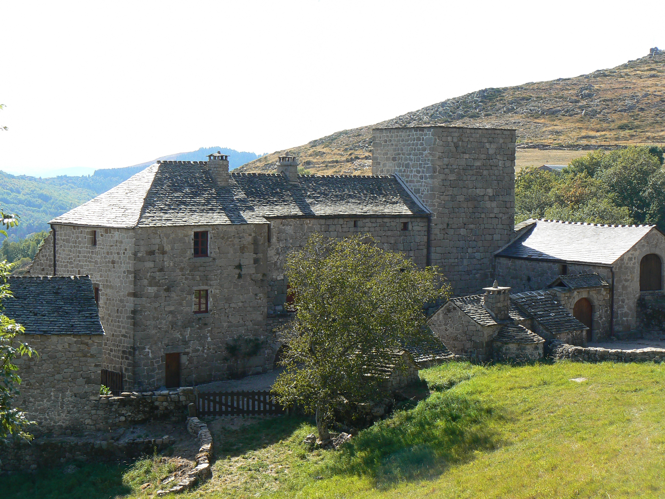 The castle of Grizac (birthplace of Pope Urbanus V (Le Pont-de-Montvert, Lozère)